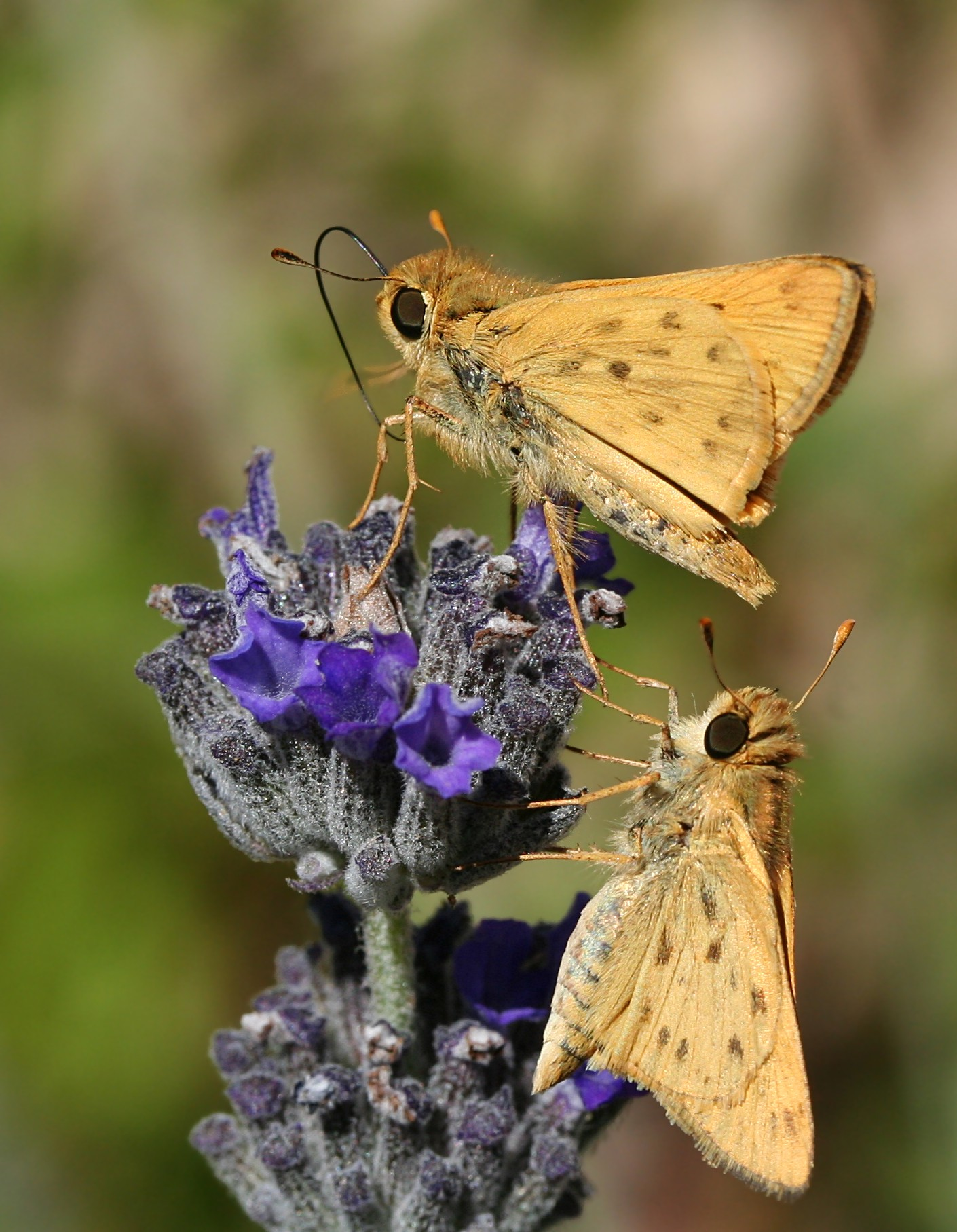 Two fiery skippers (Hylephila phyleus)